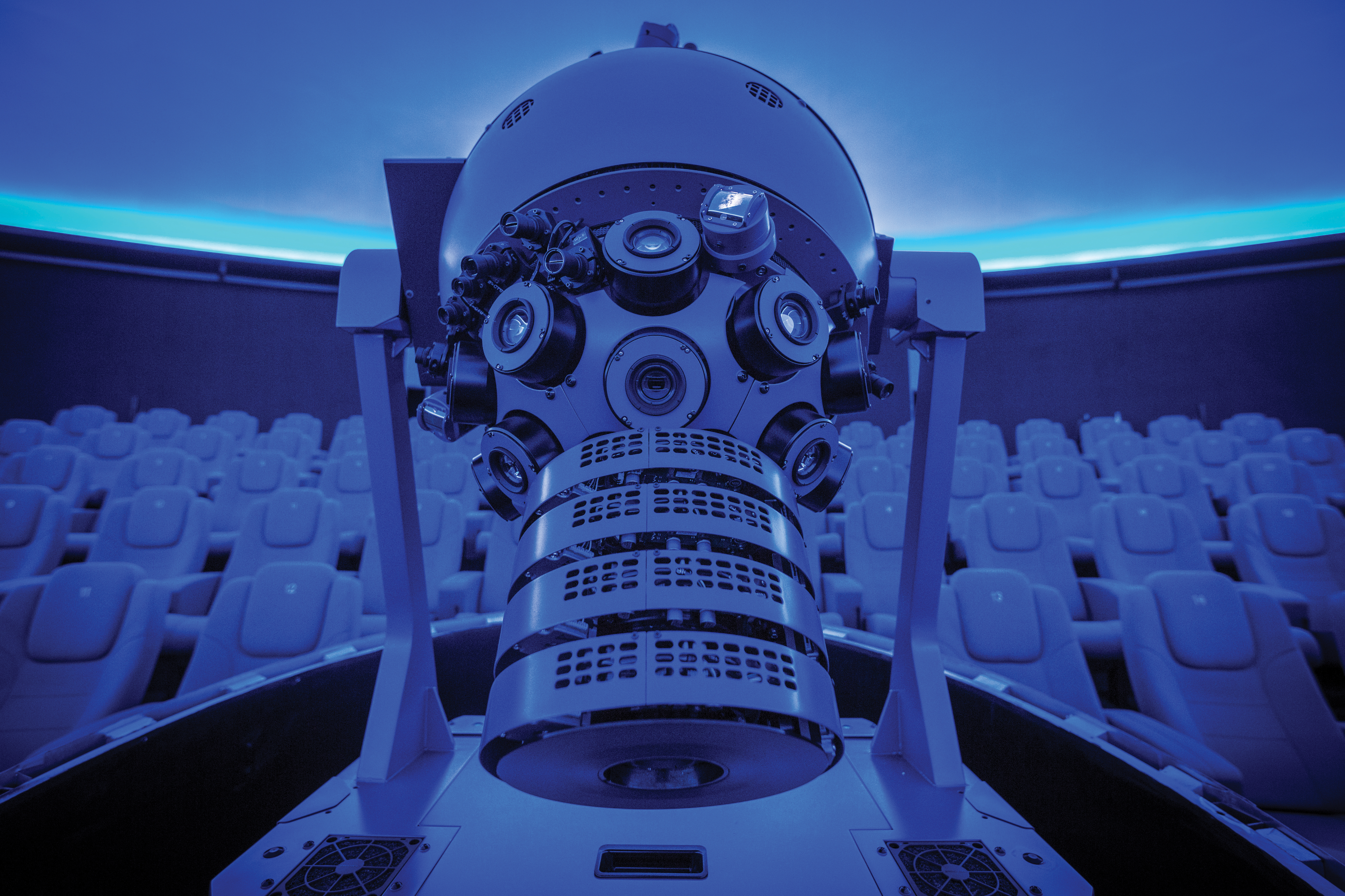 Digitarium at the Brno Observatory and Planetarium building at Kraví hora in Brno, Czech Republic